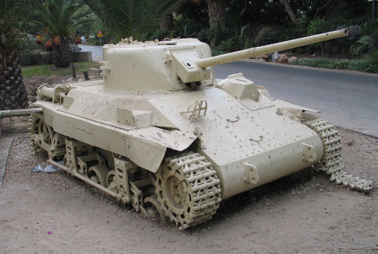 Description: M22 Locust tank in Negba, Israel. 2005. Source: Photo by me, User:Bukvoed.